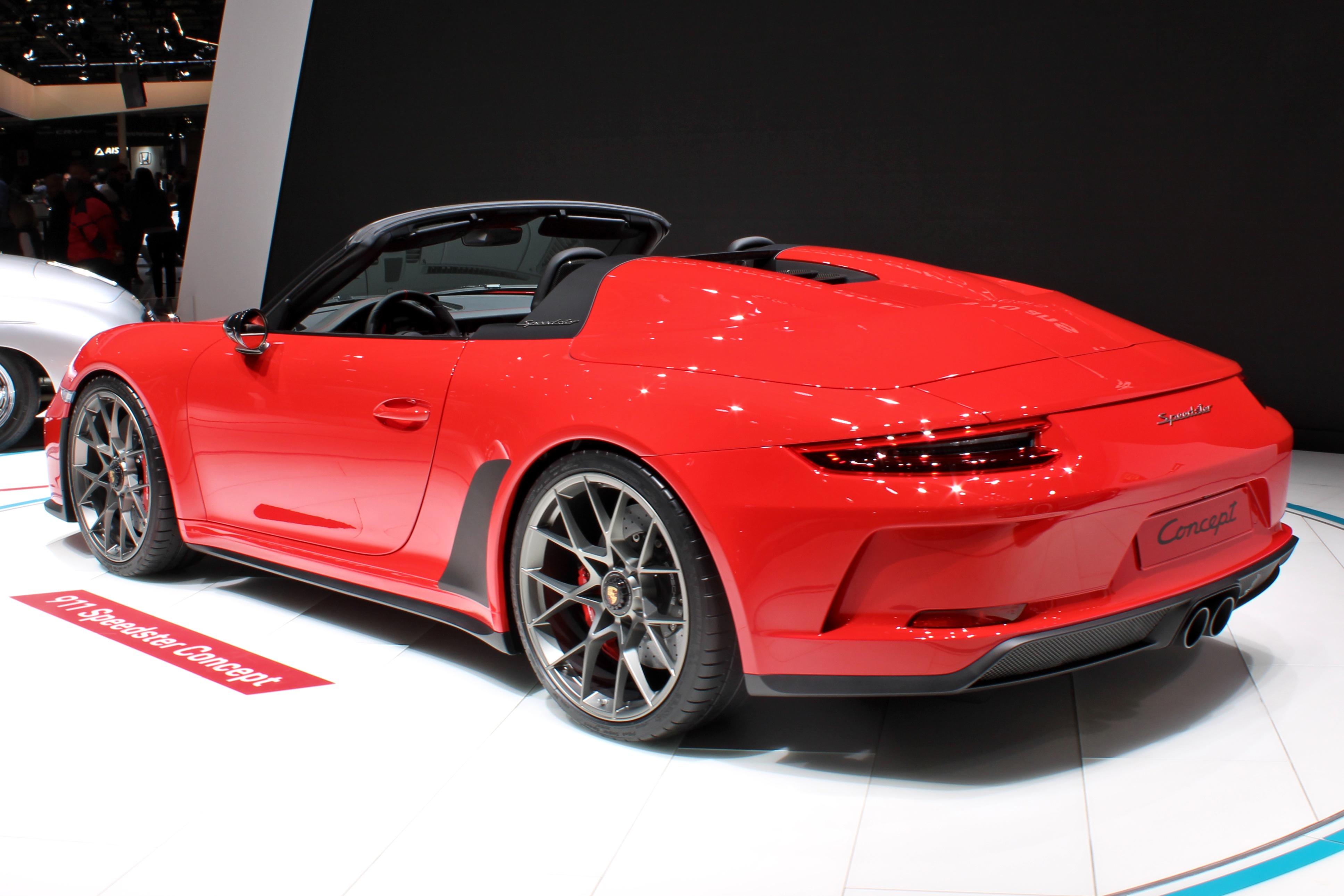 Porsche 911 Speedster Concept at Paris Motor Show 2018